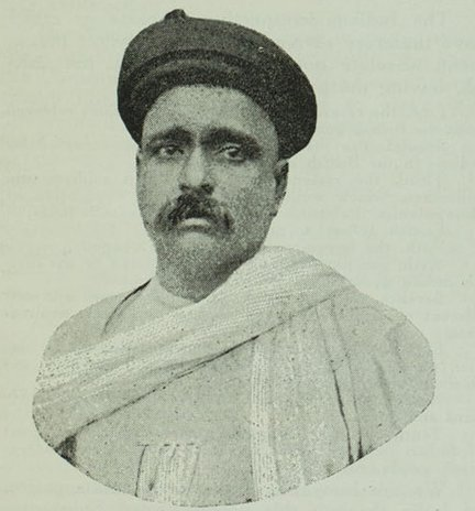 Bal Gangadhar Tilak, Indian revolutionary.